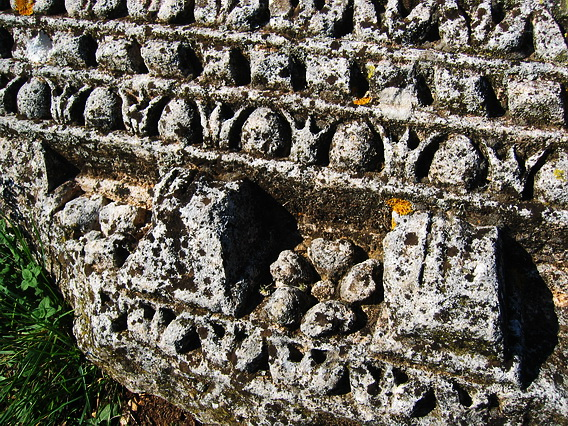 Nesactium, temple detail